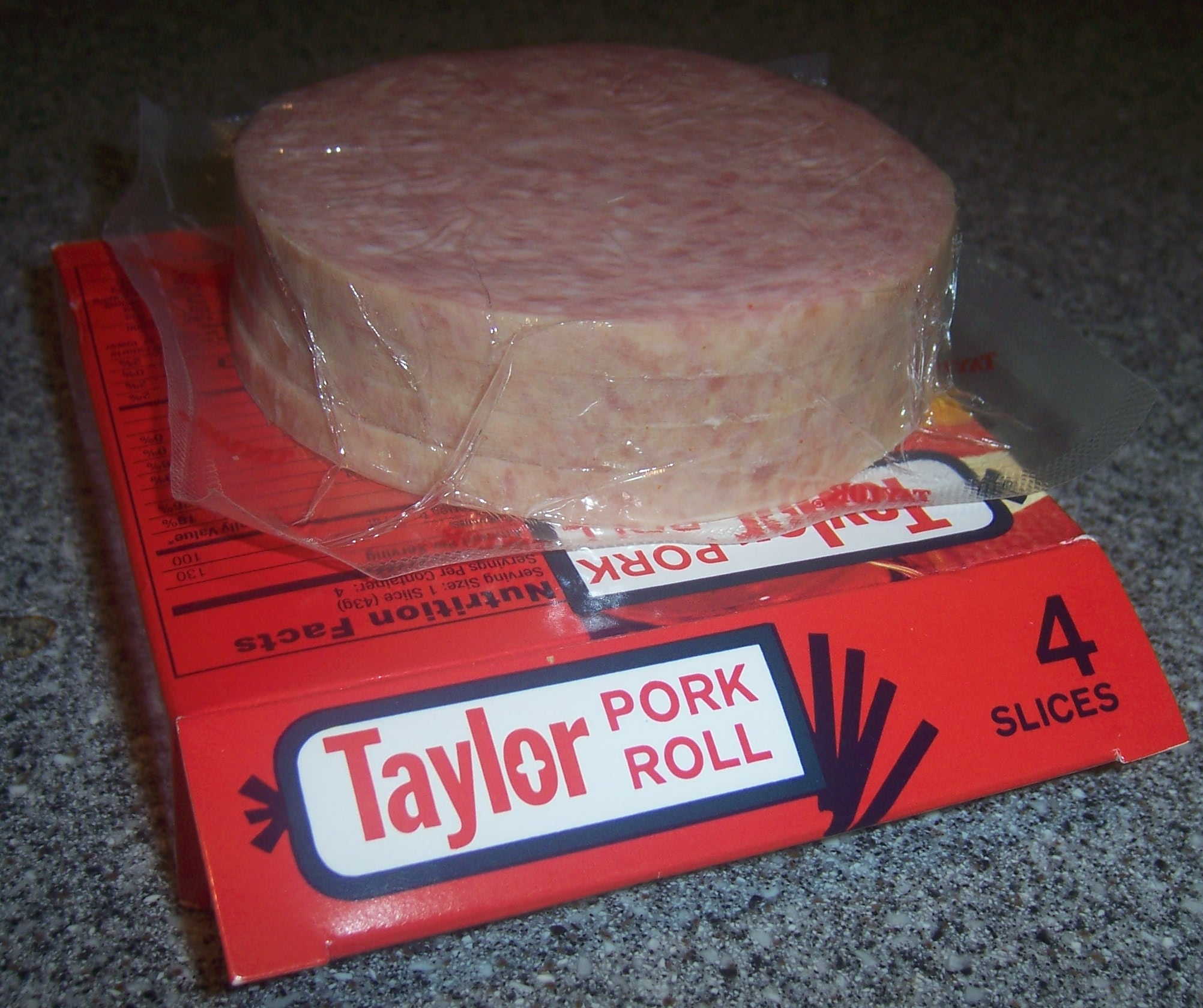 A package of Taylor pork roll (Taylor Ham)